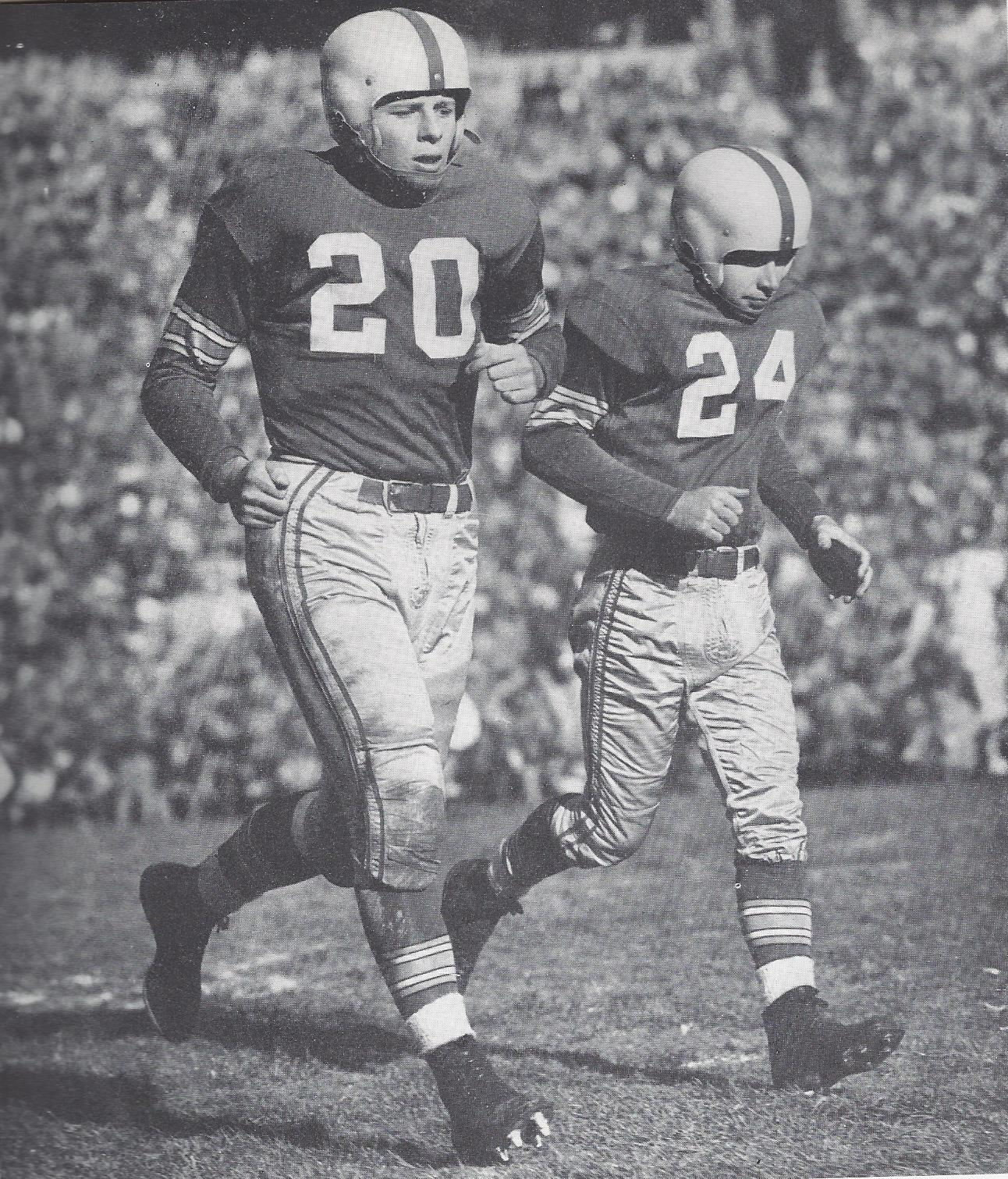 Photograph of Ohio State football players John Borton (20) and Tad Weed